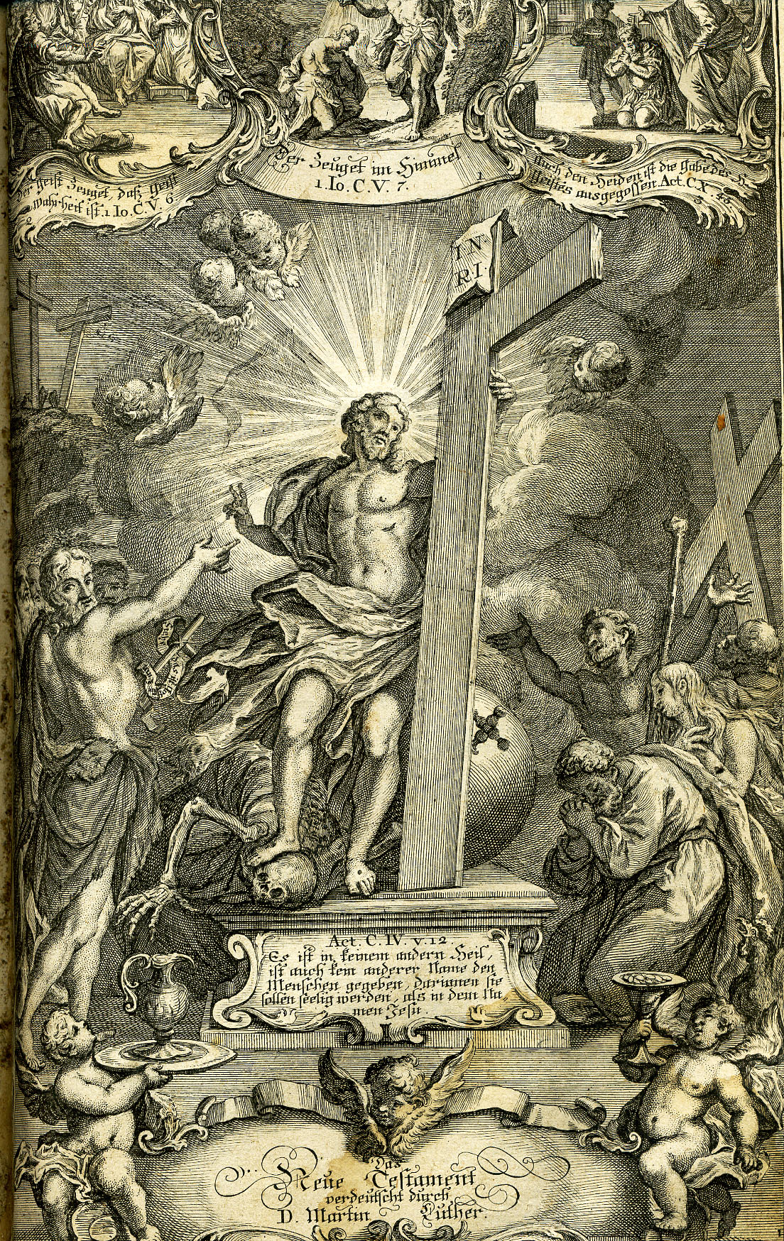 Titlepage of the New Testament section of a German Luther Bible, printed in 1769.